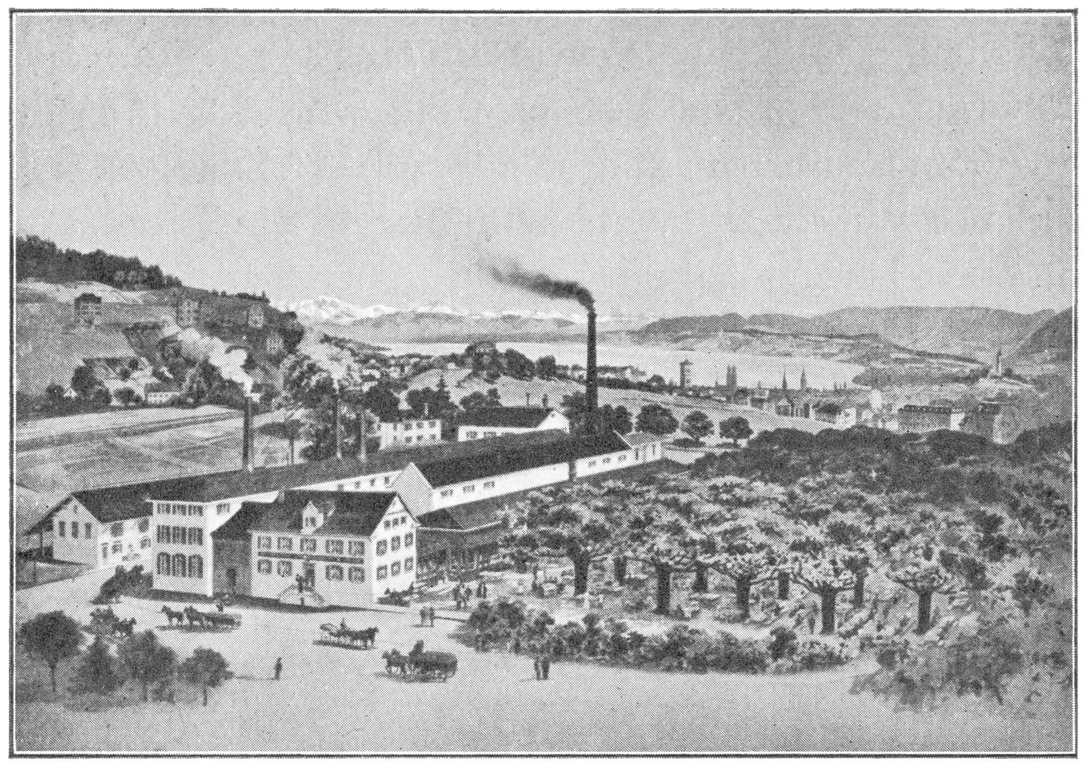 Brewery Gambrinus in Zürich, Switzerland